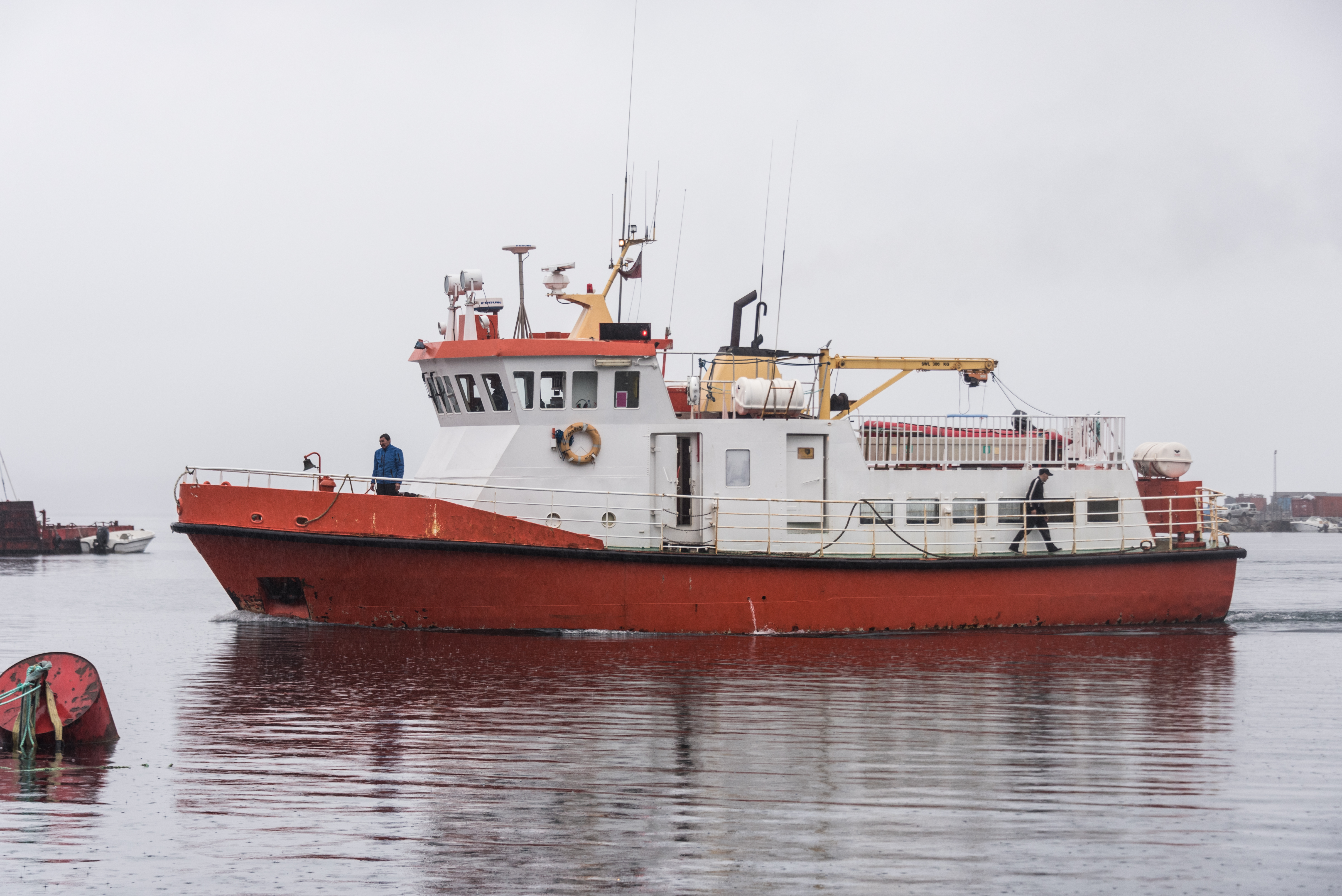 Diskoline ship, AVIAQ ITTUK MMSI 331010000, in Qaqortoq Harbor, Greenland on September 6, 2017. Diskoline provides inter-community passenger service in the Disko Island area in the north and in South Greenland on contract with the Government of Greenland, along with tourist travel services.